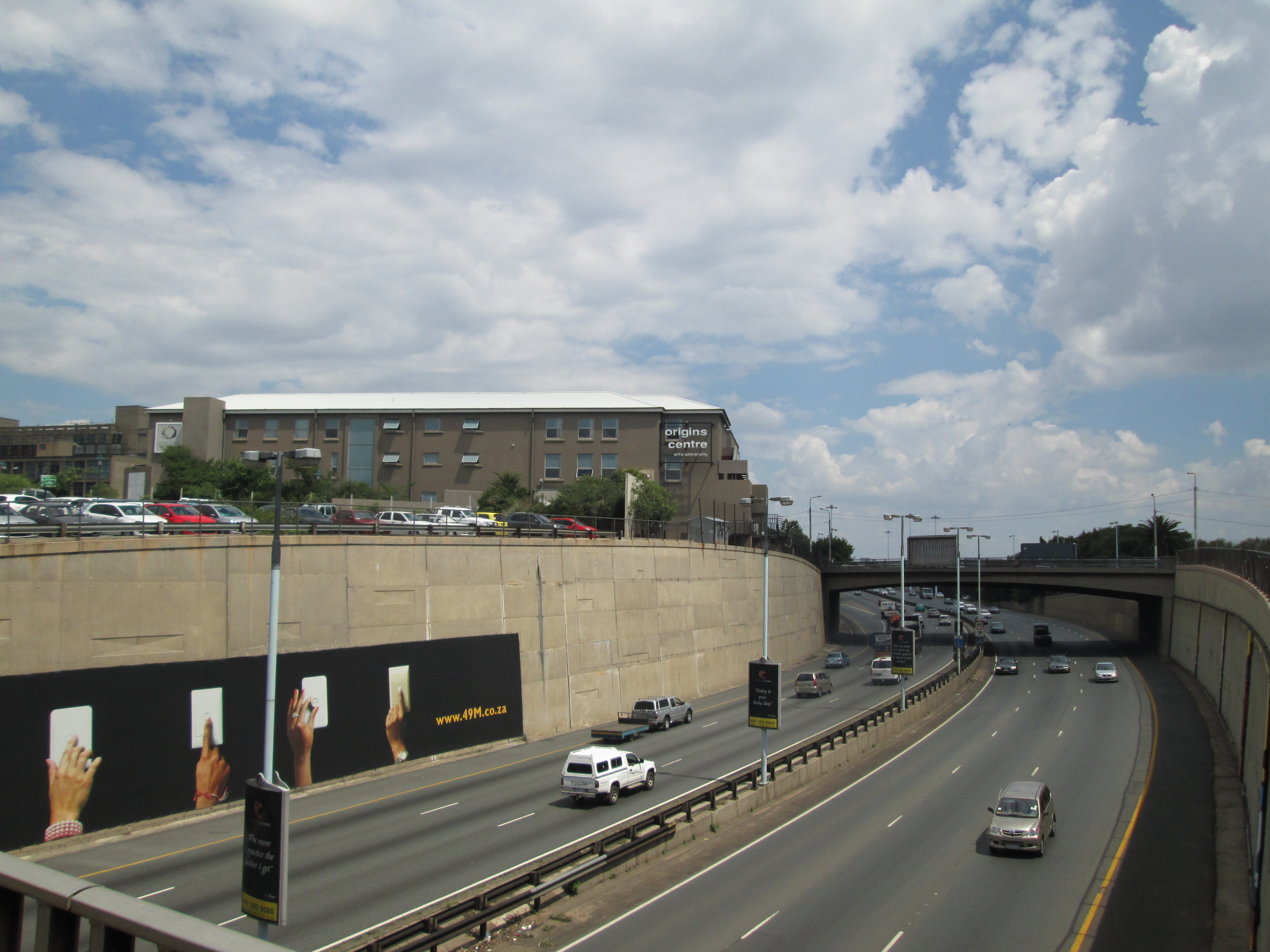 The Origins Centre museum on the East Campus of the University of the Witwatersrand, Johannesburg, viewed from the pedestrian bridge over the M1 linking the East and West campuses.